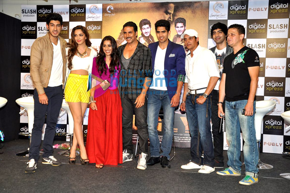 Trailer launch of 'Fugly'